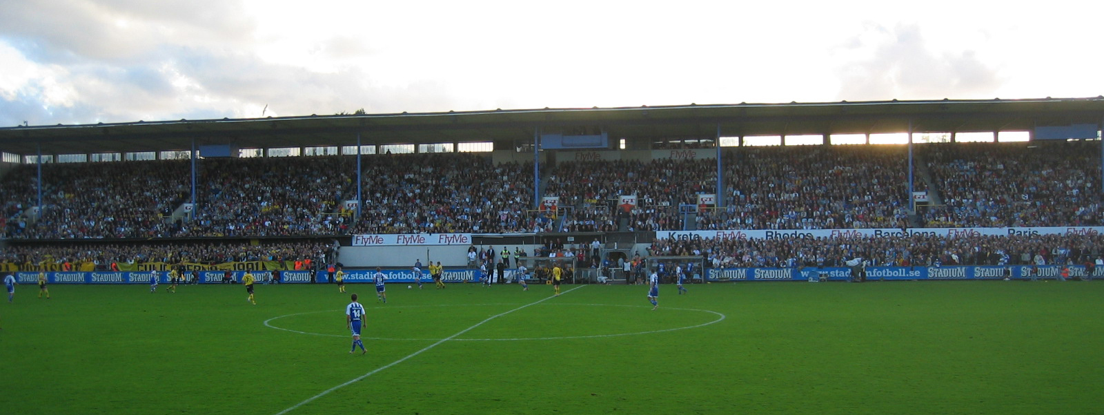 The main, and only seated, stand (west stand) of Gamla Ullevi. Photo taken during the Fotbollsallsvenskan match IFK Göteborg–IF Elfsborg (1-1).